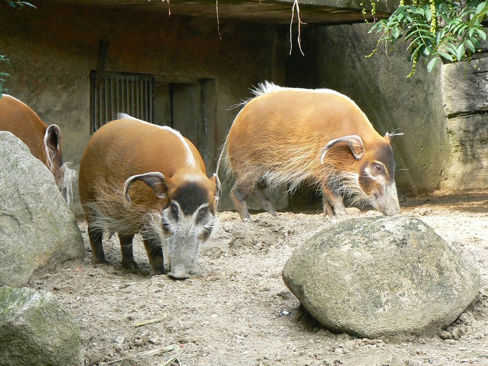 Potamochoerus porcus pictus /African bush pig / pinselohrschwein